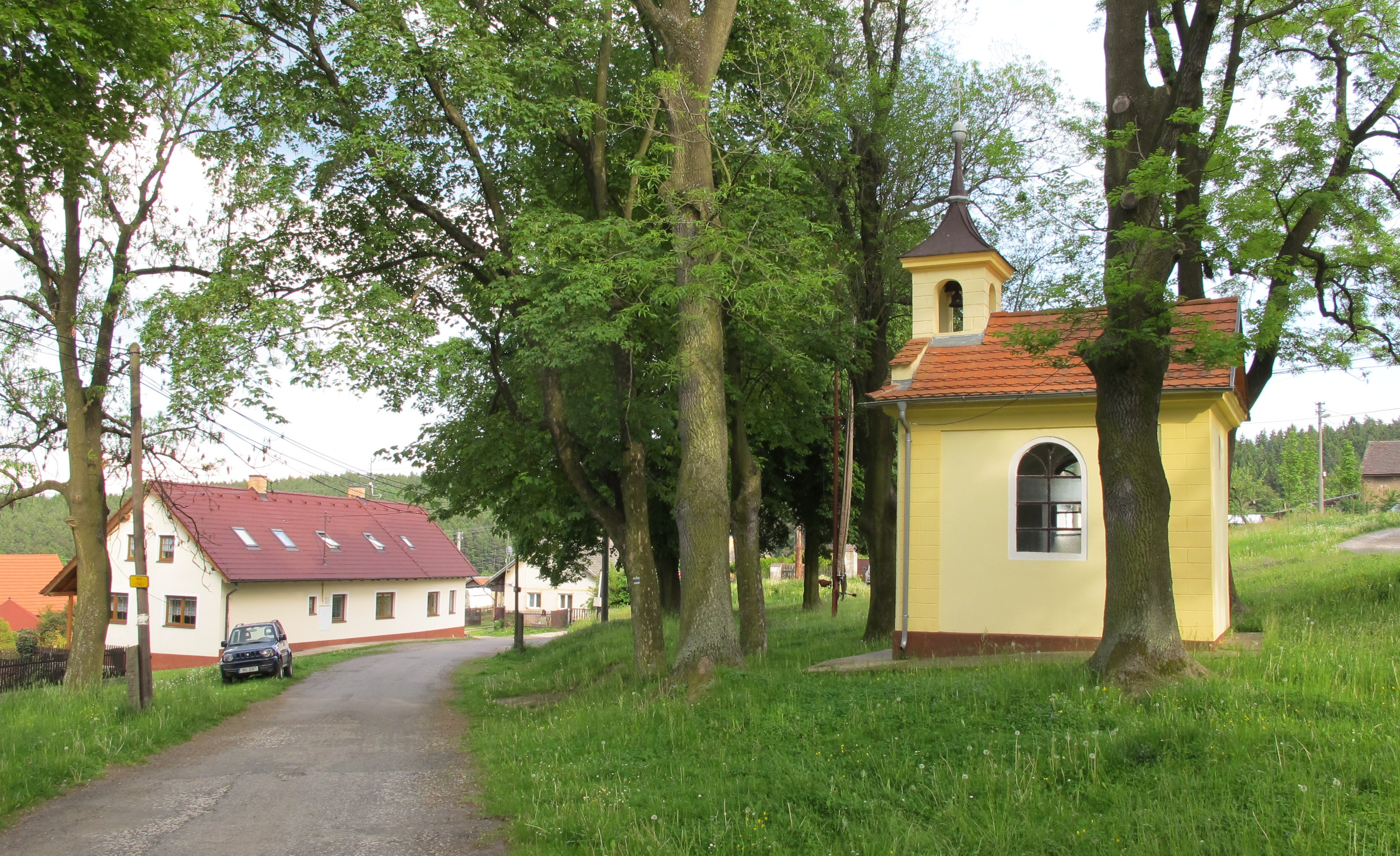 Křešín is a little municipality between Felbabka and Jince, Příbram District